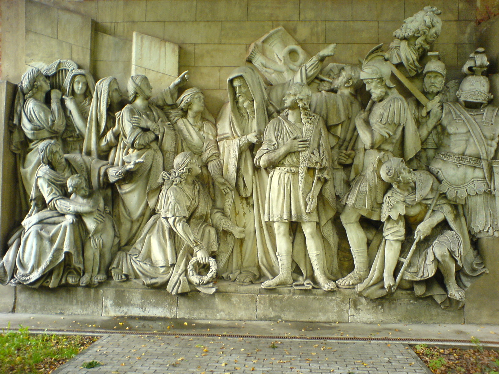 A preserved part of the original Christ the Saviour Cathedral, Donskoy Monastery, Moscow